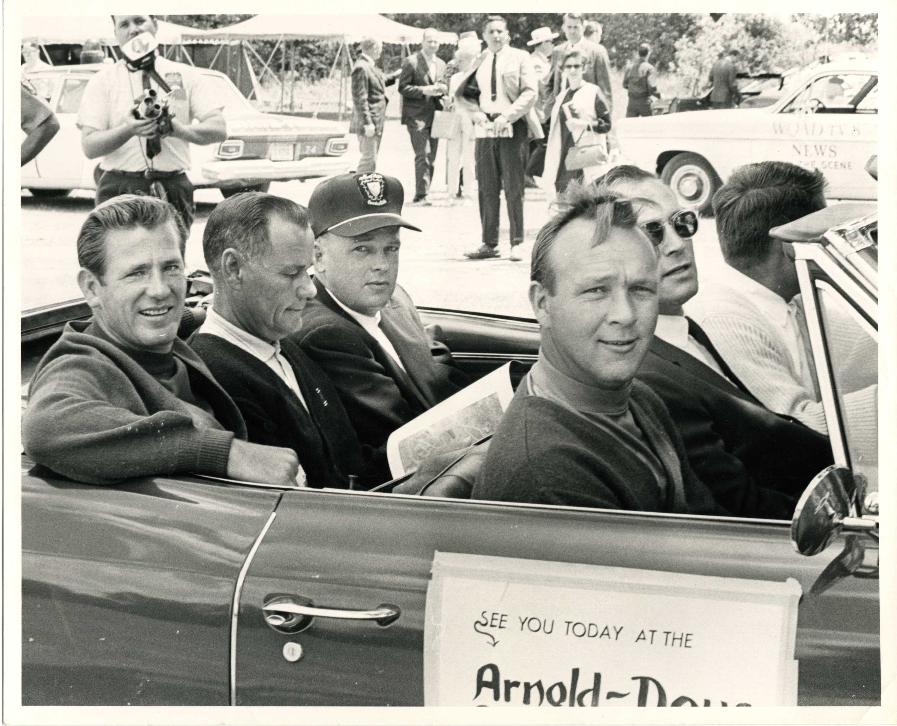 Back seat: Pros Doug Sanders, Bob Fry and Jack Rule Front seat: Pro Arnold Palmer, Heisman Trophy winner John Lujack, and unknown driver Palmer-Player Exhibition match at Emeis Golf Course in Davenport, Iowa